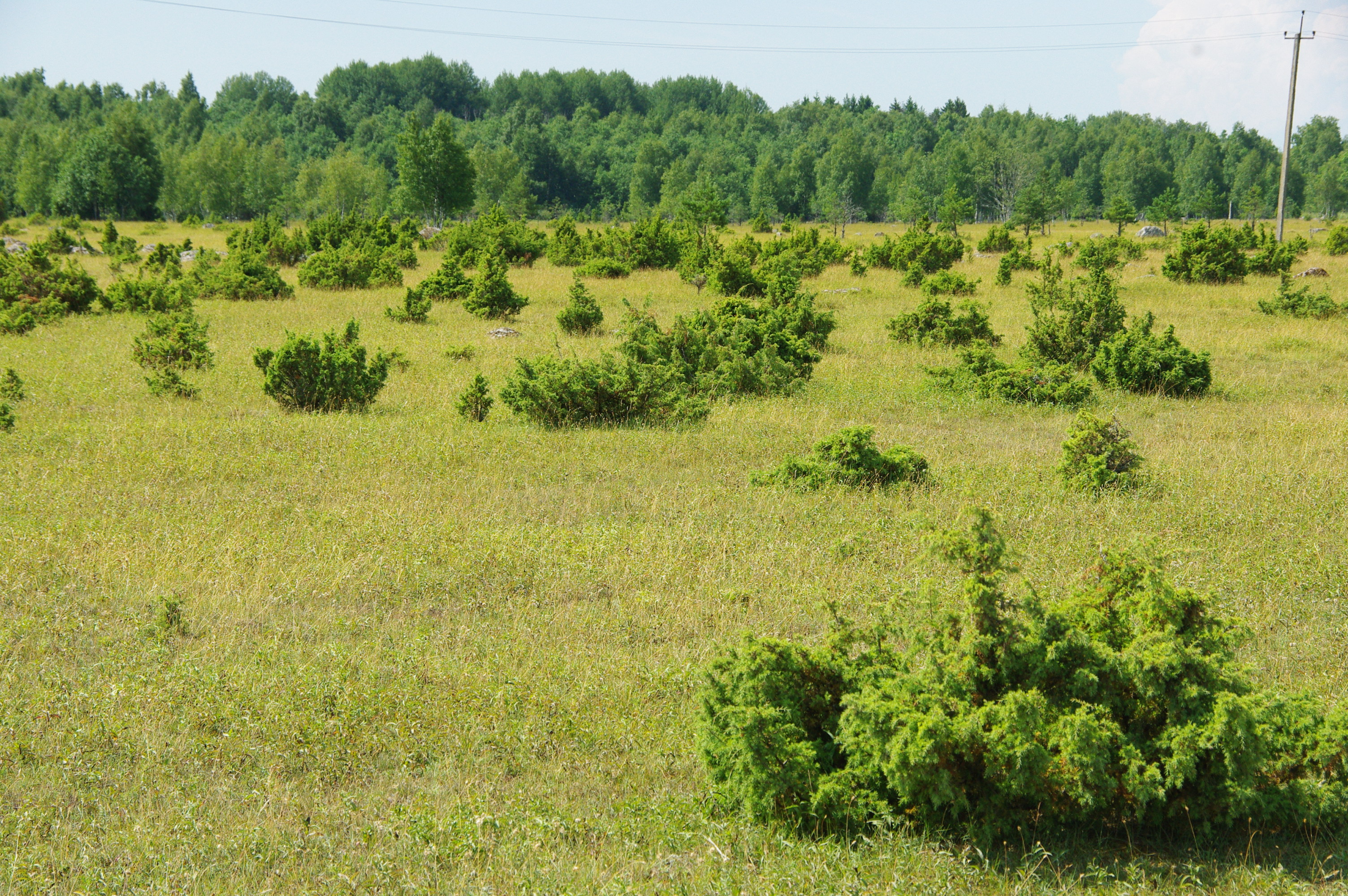 Grazed alvar grassland in Läänemaa, Estonia